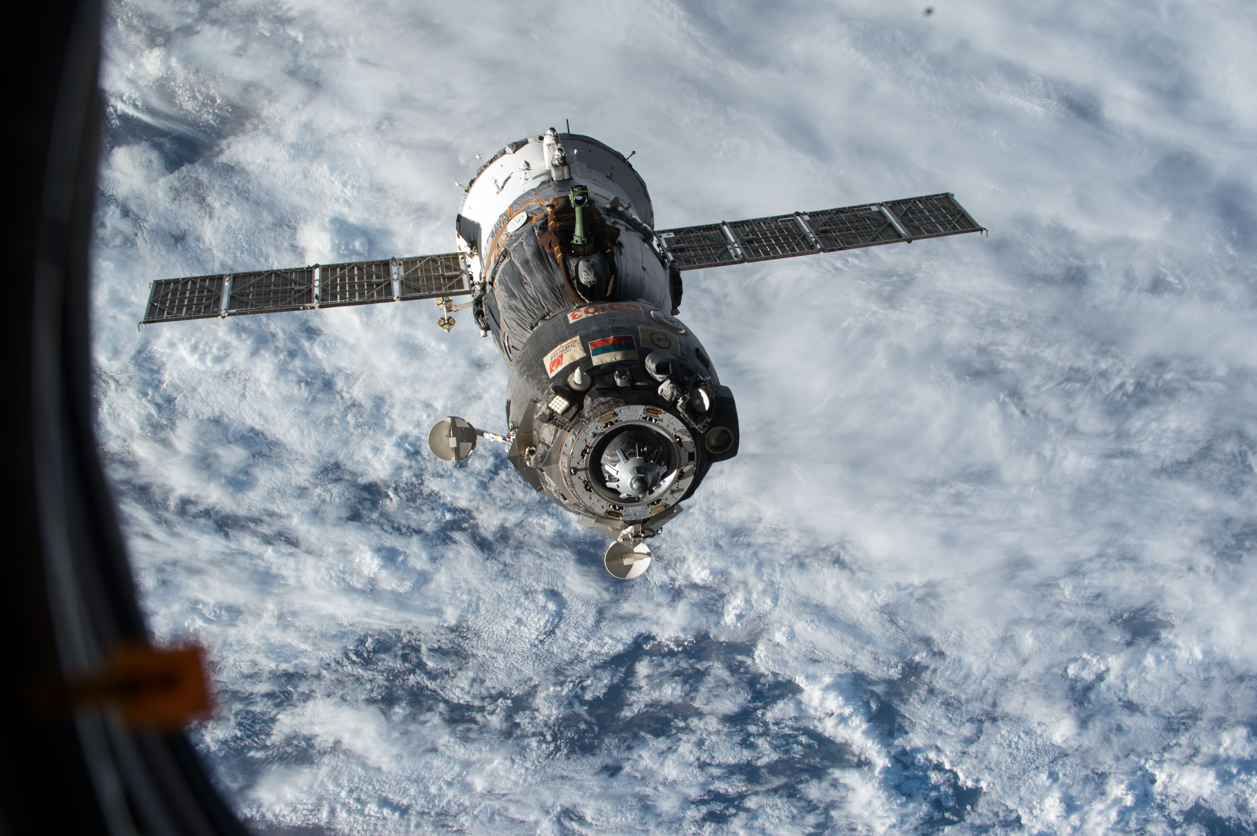 The Soyuz TMA-15M spacecraft undocked from the Rassvet module on the International Space Station on June 11, 2015. NASA astronaut Terry Virts, (ESA) European Space Agency astronaut Samantha Cristoforetti and Russian cosmonaut Anton Shkaplerov are on their way back to Earth. They will land in Kazakhstan a few hours later after more than 6 months in space.